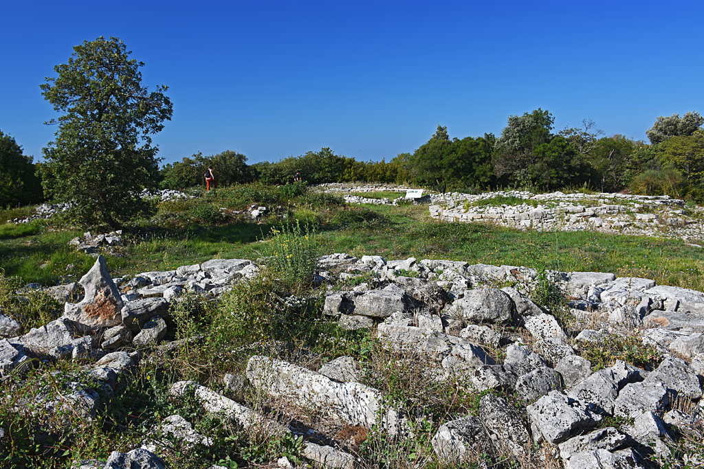 Monsego is a hill near the well known archaeologic site of Monkodonja. Today it is not populated. Many tumuli from the same time (bronze age) as the remains in Monkodonja were discovered on the hill, so it is believed that it was a necropolis of that town.